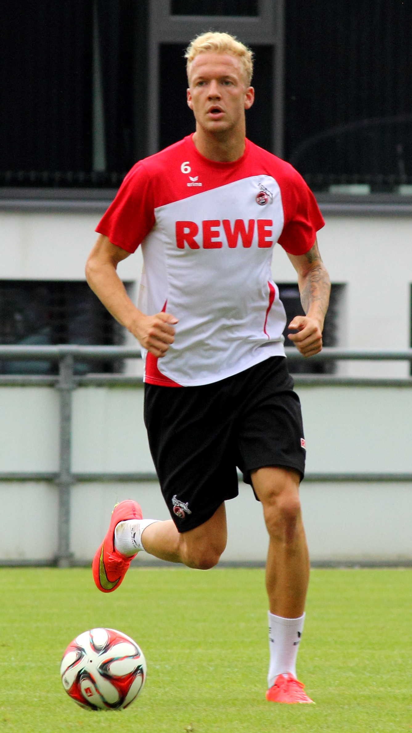 Kevin Vogt in training with 1. FC Koln